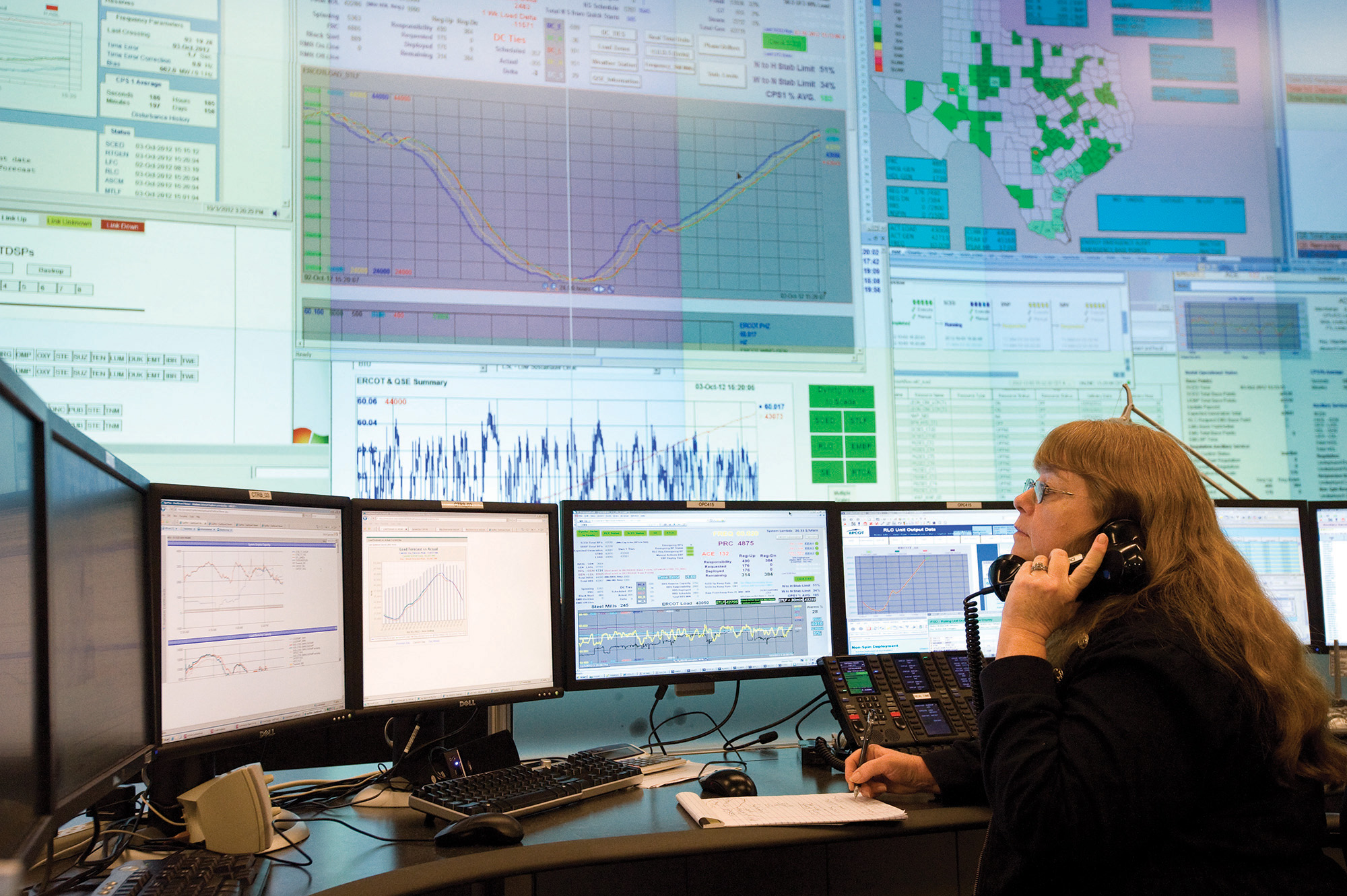 Electric Reliability Council of Texas (ERCOT) control room operator (dispatcher)